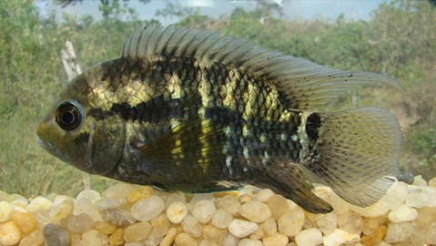 Cichlasoma orientale